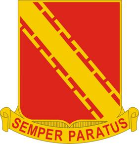 52d Air Defense Artillery DUI from [1]